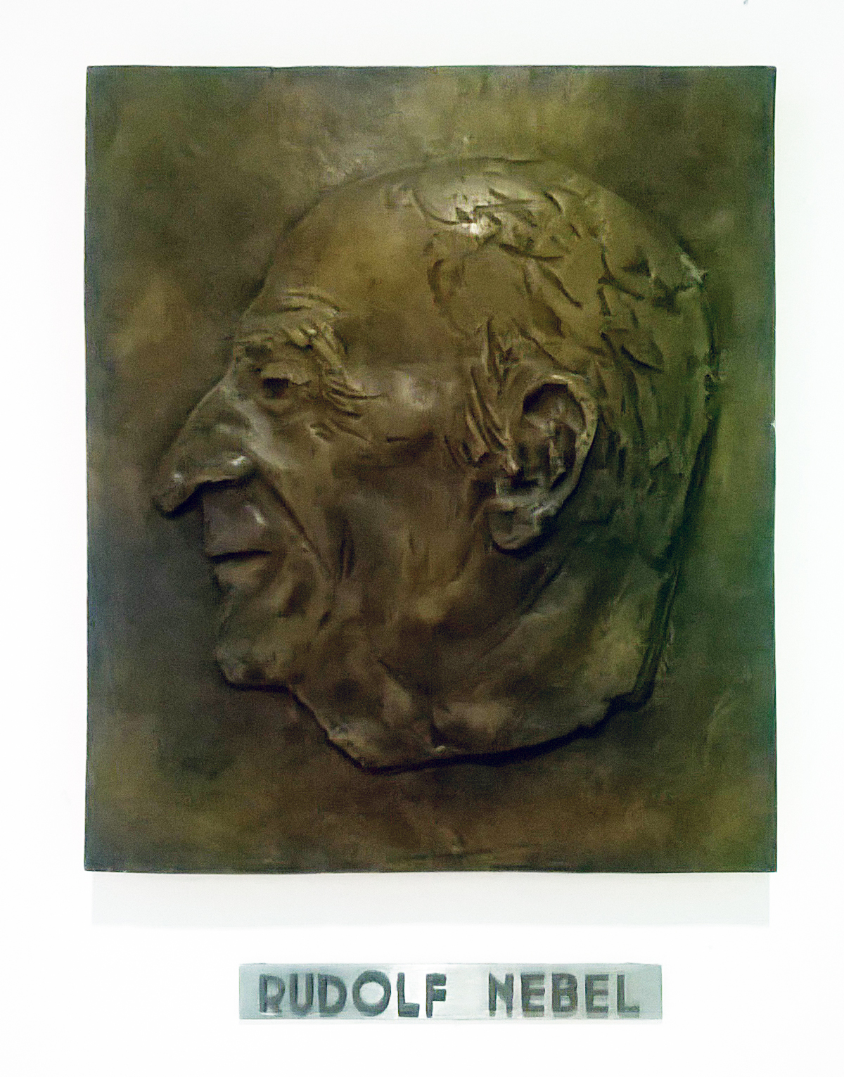 Relief, "Rudolf Nebel" by Erich Fritz Reuter, 1974, Flughafen Berlin-Tegel, Berlin-Tegel, Germany